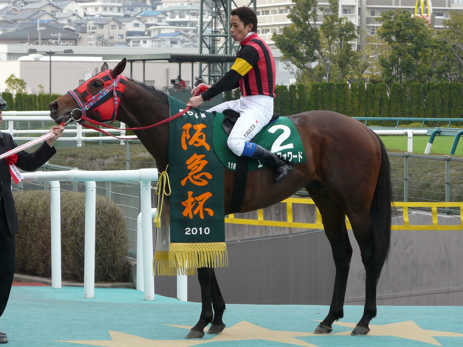 A-Shin-Forward20100228, ridden by Yasunari Iwata.